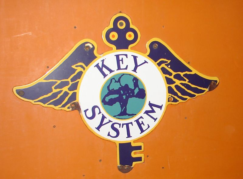 Nostalgic old timers will tell you this was the pinnacle of public transportation in the San Francisco East Bay. We used to live a block from a former Key System line. These cars whizzed right across the Bay Bridge.